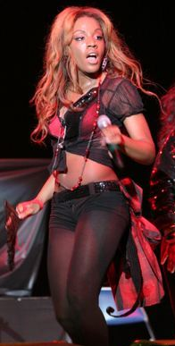 Dawn Richard at the Tacoma Dome for Jingle Bell Bash 9.